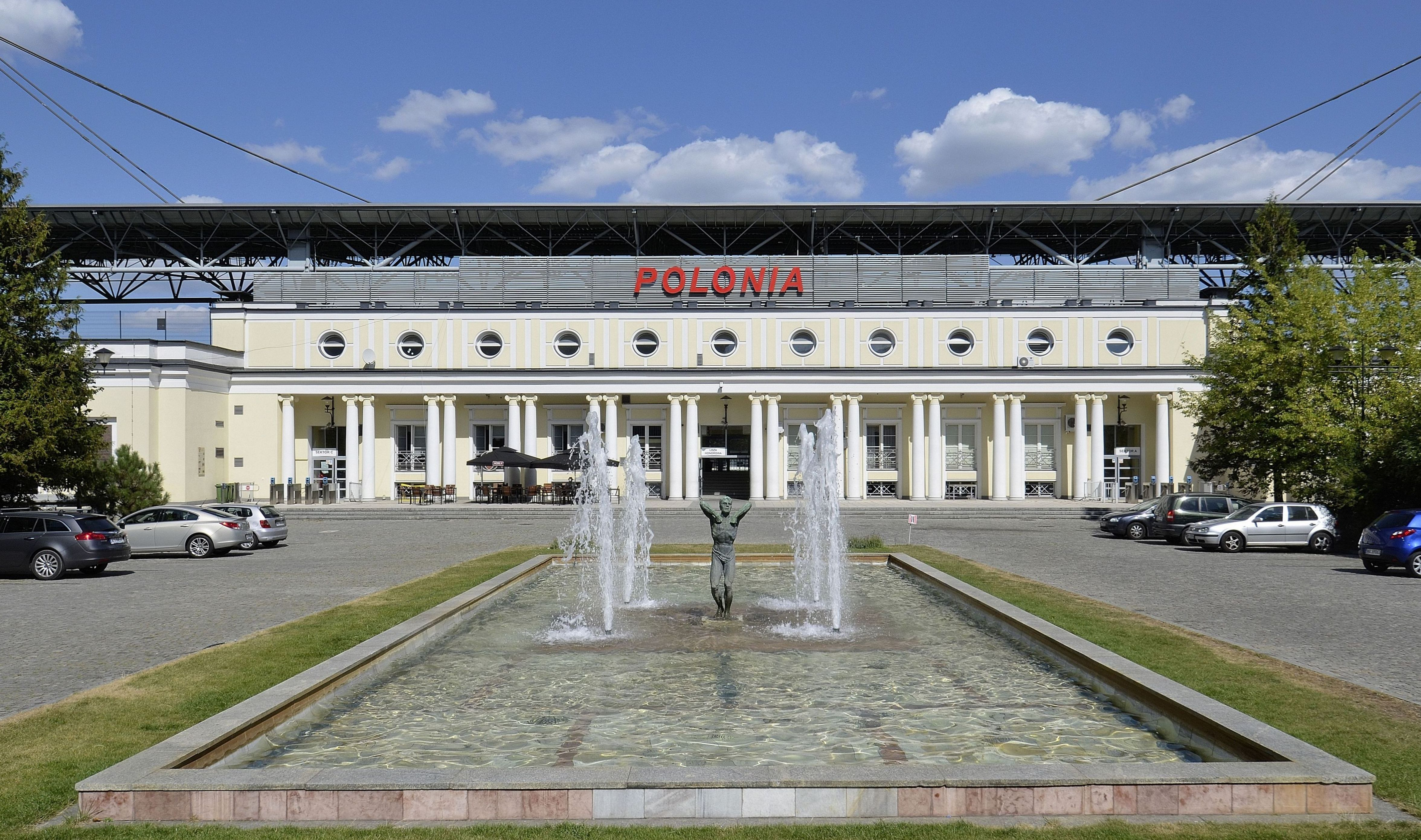 Polonia Warszawa Stadium